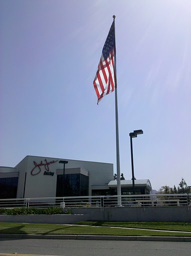 The John Force Race Station in the Savi Ranch Center in Yorba Linda, California